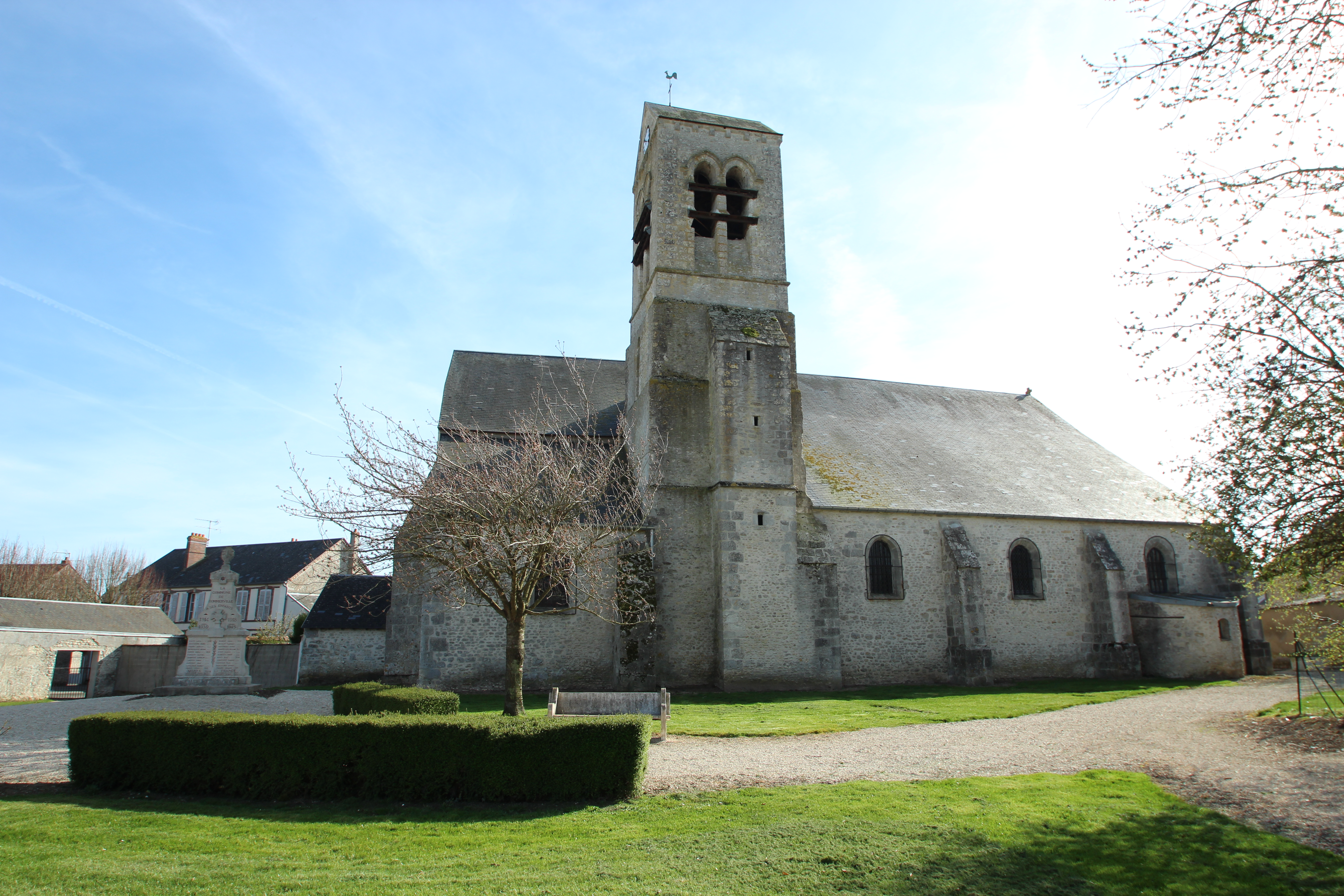 Saint Martin church in Gommerville, Eure-et-Loir, France. Object location48° 20′ 46.75″ N, 1° 56′ 40.45″ E